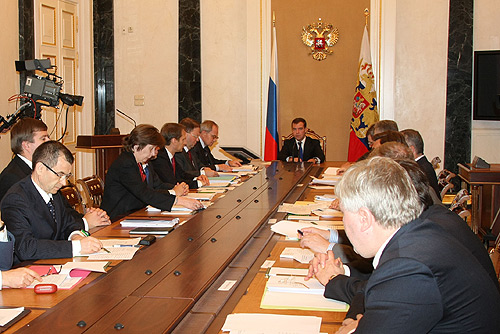 THE KREMLIN, MOSCOW. Meeting of the Anti-Corruption Council.